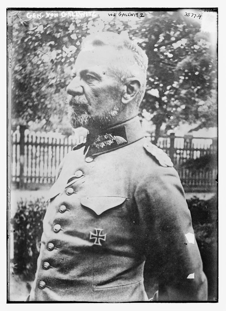 Max Karl Wilhelm von Gallwitz in 1915